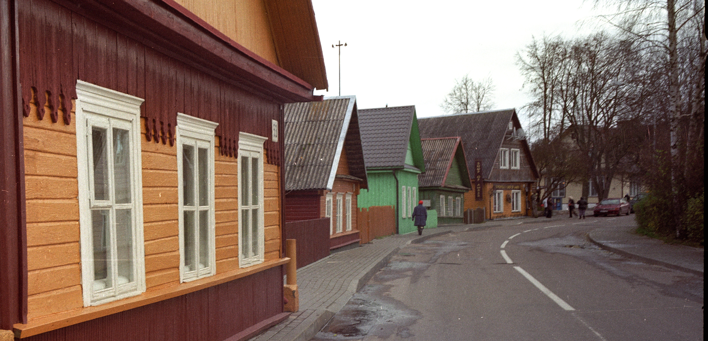 Typical three-window wooden Tatar houses in Trakai, Lithuania